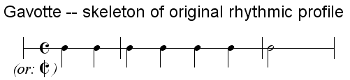 Illustration in music notation of basic original rhythm of the gavotte. Musical notation, input, and screen-capture by [1].